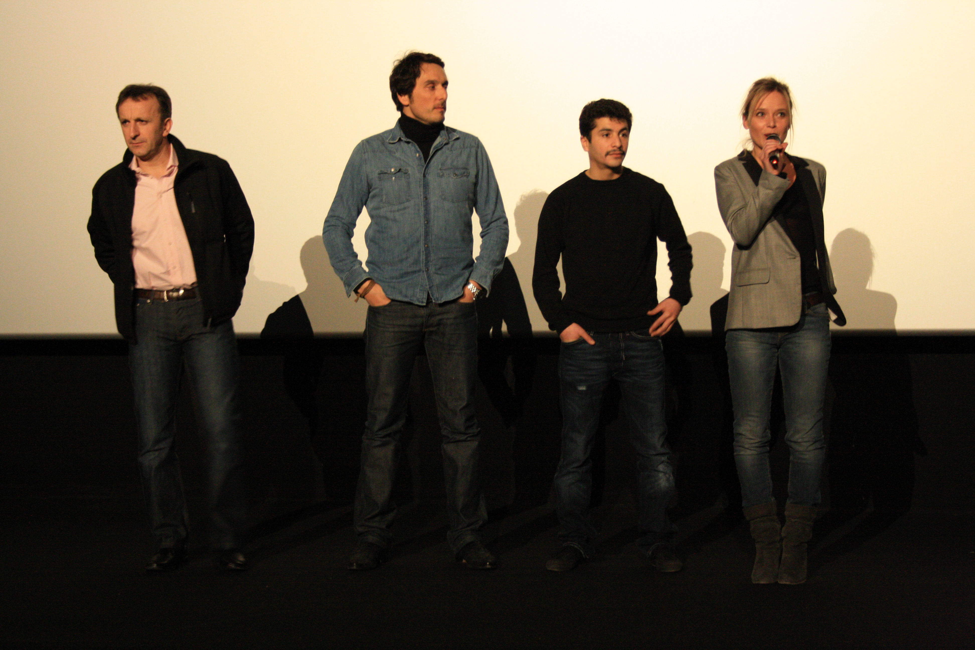 Premiere of the French movie L'Assaut with the crew of the movie in Montigny-le-Bretonneux, France with from left to right: a member of GIGN, Vincent Elbaz, Aymen Saïdi, Marie Guillard